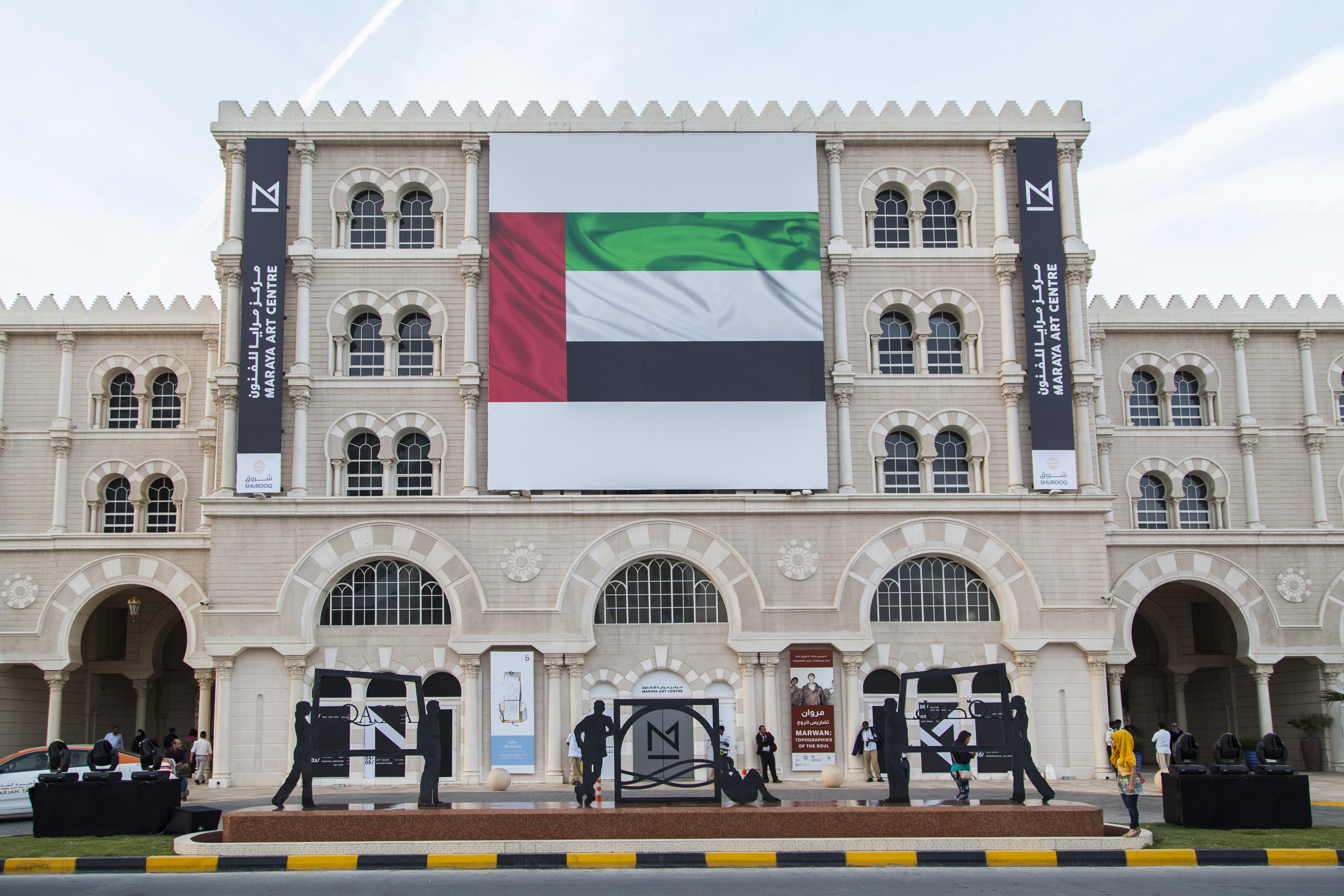 The Maraya Art Centre building which houses the Barjeel Art Foundation in Al Qasba, Sharjah.